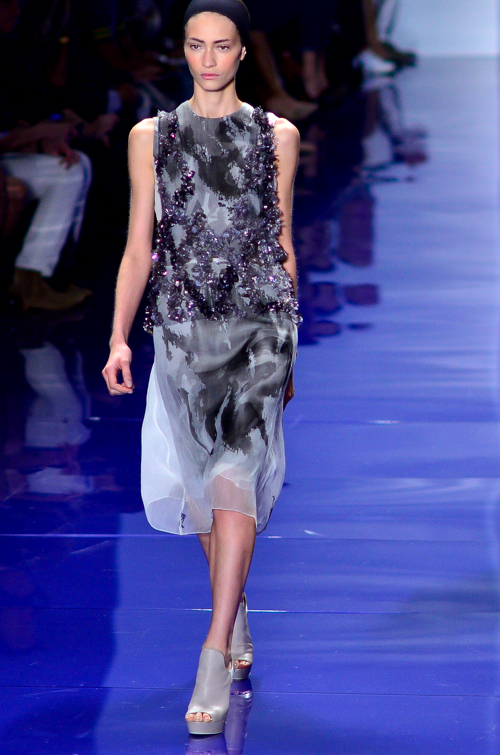 A model walks the runway at the Vera Wang Spring/Summer 2014 show at New York Fashion Week, September 2013.